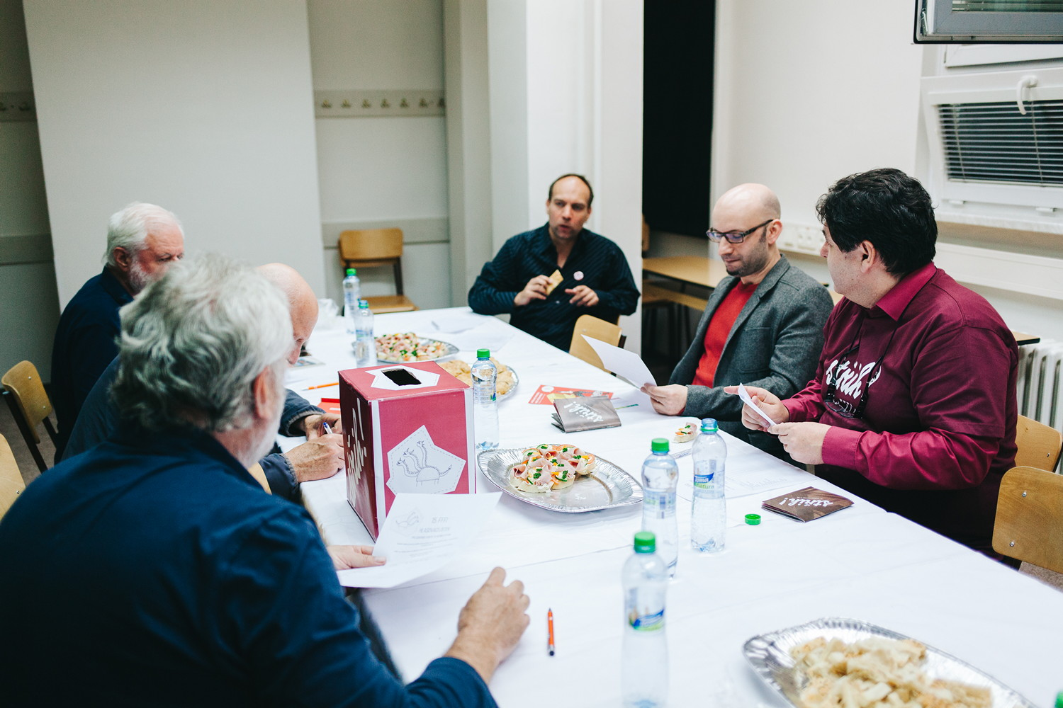 Film festival of Faculty of Informatics jury